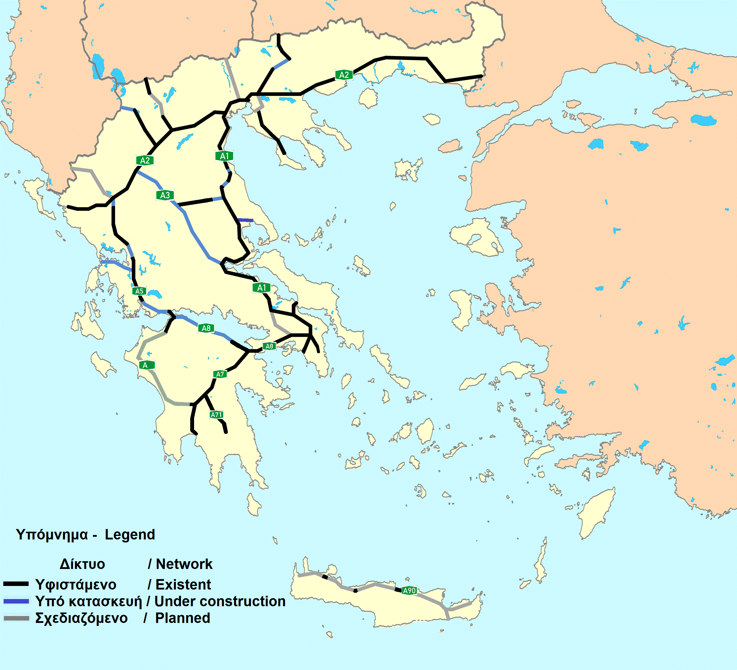 Completed greek motorways